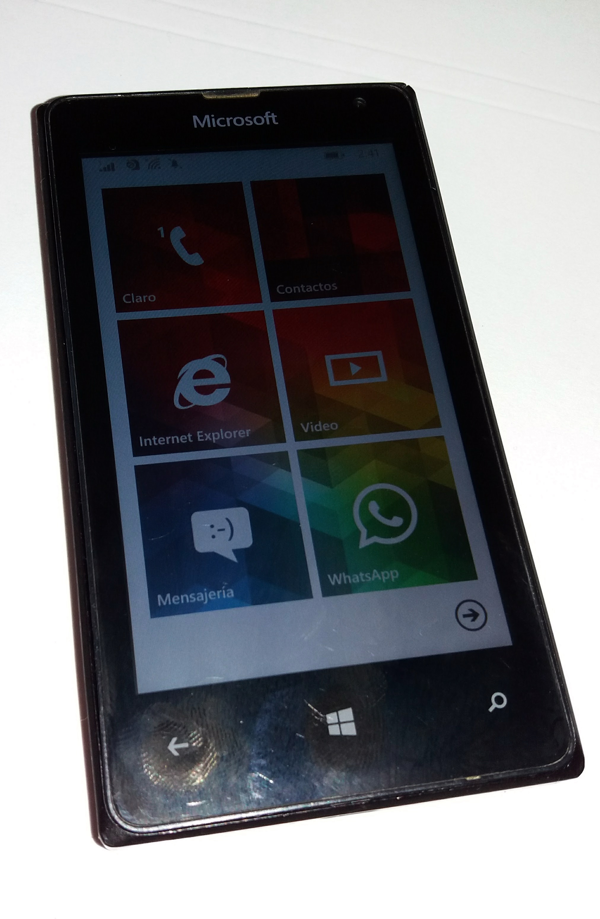 The Microsoft Lumia 435 running Windows 10 Mobile, Dual-SIM Model